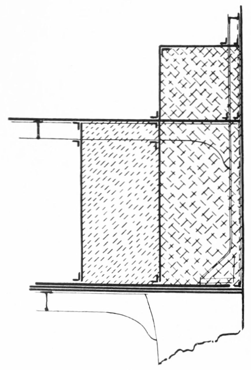 Iowa_battleship - cofferdam sectional view